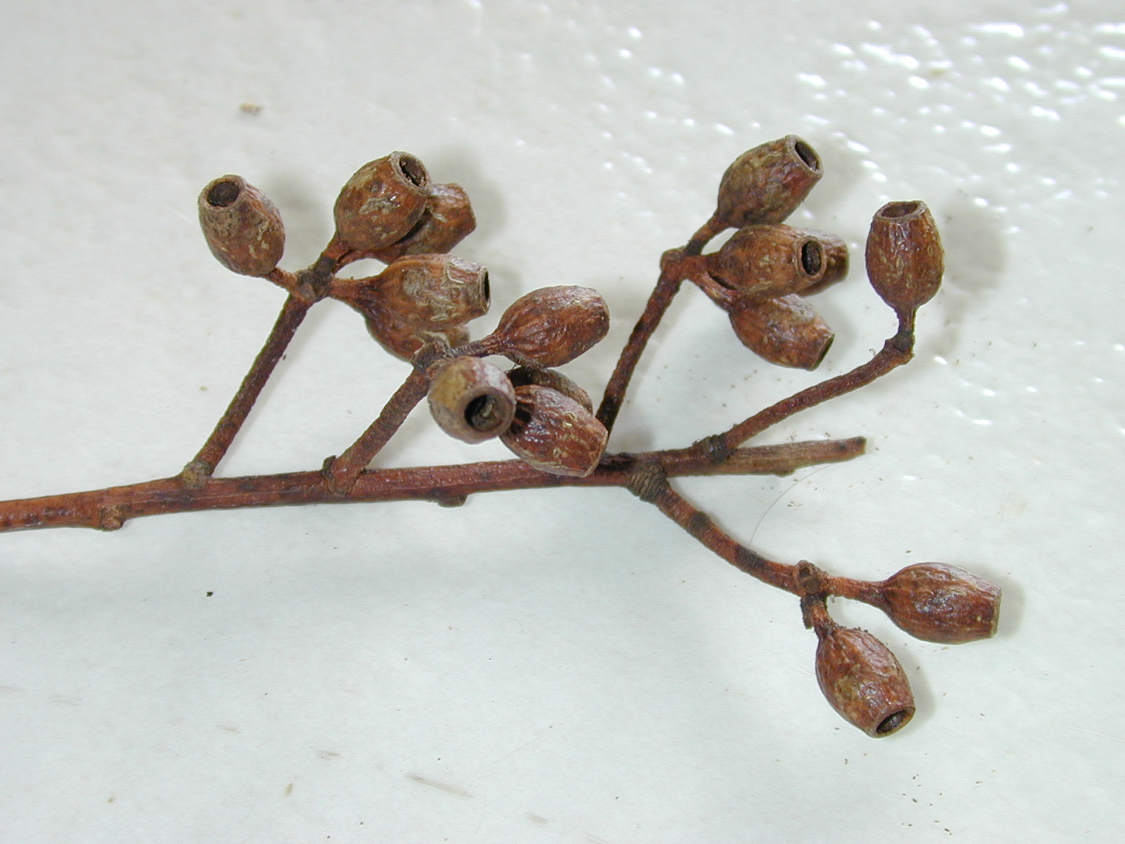 Eucalyptus cladocalyx (fruit tree from near polo field). Location: Maui, Hobdy collection